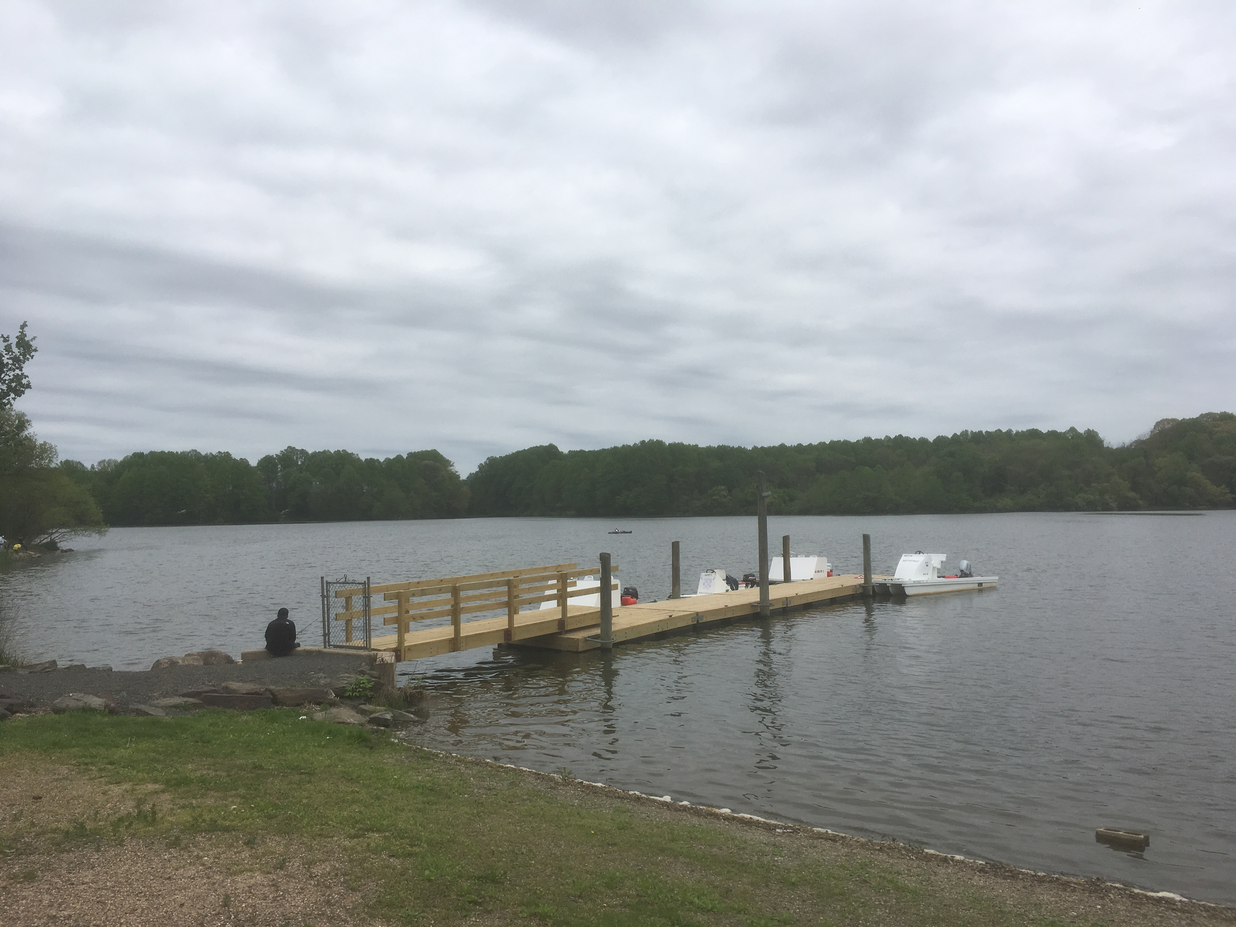 A dock on Lake Luxembourg in Core Creek Park in Middletown Township, Bucks County, Pennsylvania